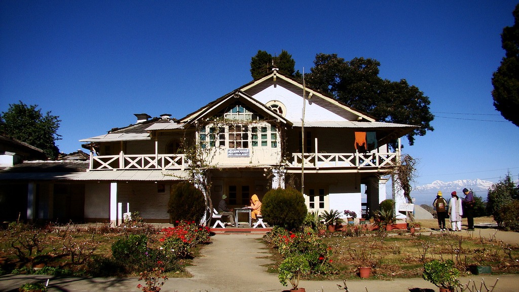 Advaita Ashrama, Mayavati, a branch of the Ramakrishna Math, founded on March 19, 1899. Near Lohaghat, 22 km from Champawat in Champawat district, Uttarakhand. Image courtesy, Soumya IITC.